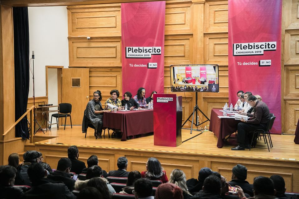 n este foro las dos partes involucradas —el grupo promovente del plebiscito y la autoridad municipal— expresaron sus posturas y argumentos sobre el proyecto de alumbrado público que se someterá a consulta ciudadana el domingo 24 de noviembre.